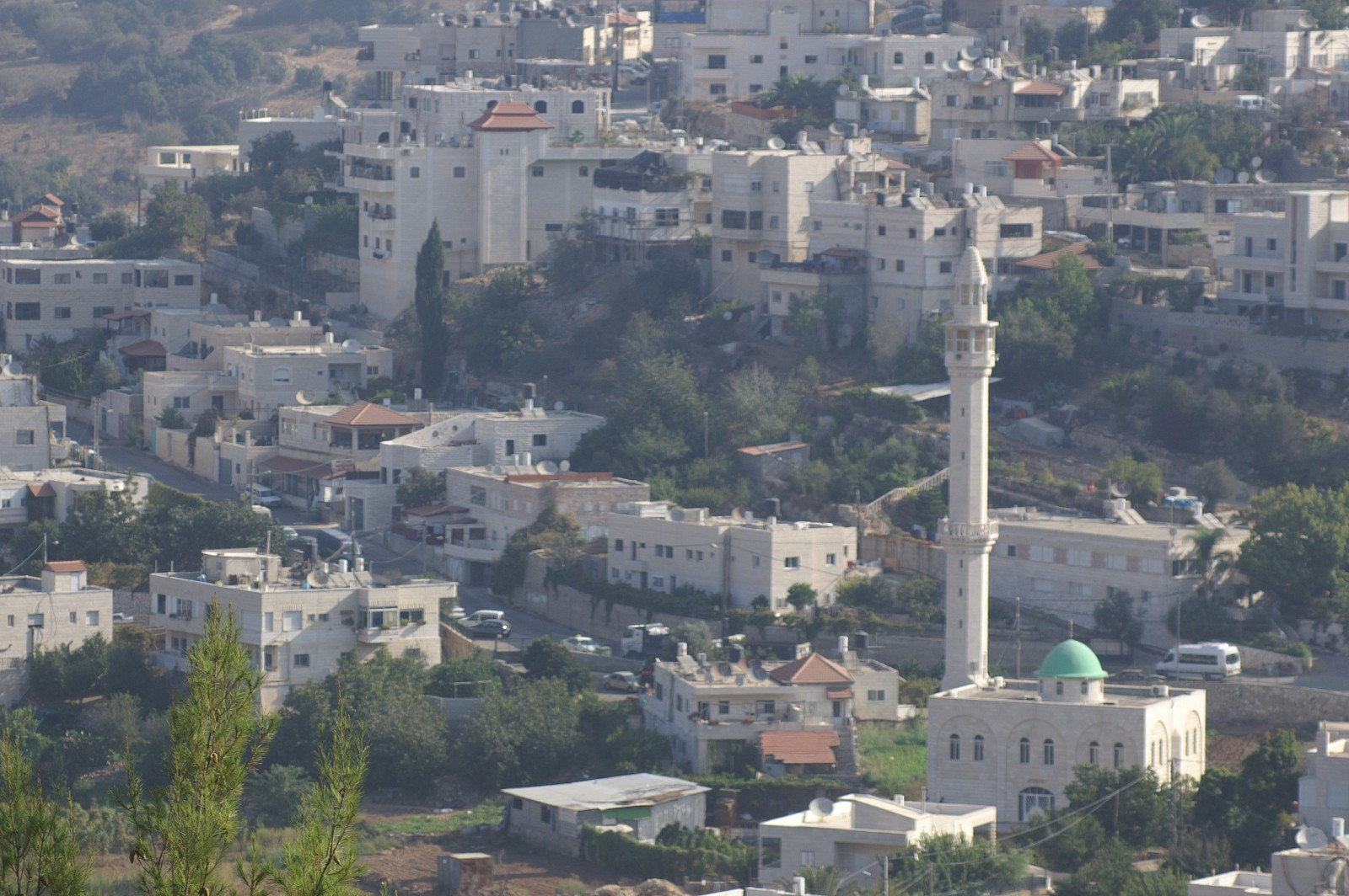 Geography of Israel